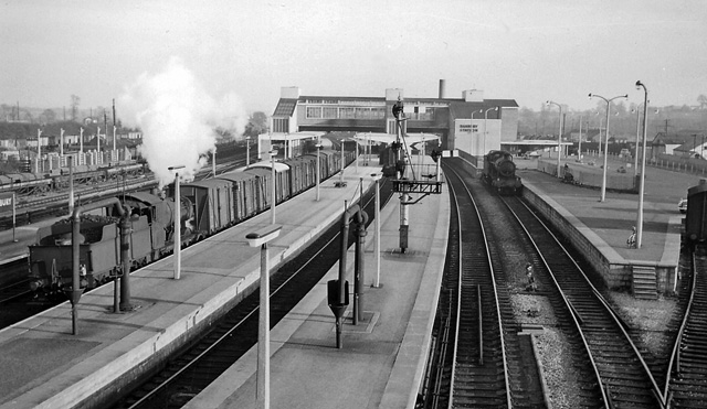 Banbury Station View southeast towards Oxford and London. This is the main (General) station, on the former GWR Paddington – Birmingham line, so decrepit and a bottleneck it was rebuilt very soon after nationalisation.